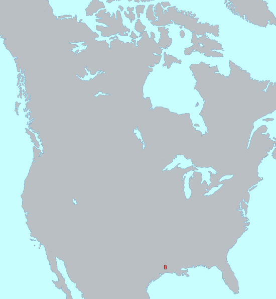 distribution of Adai language